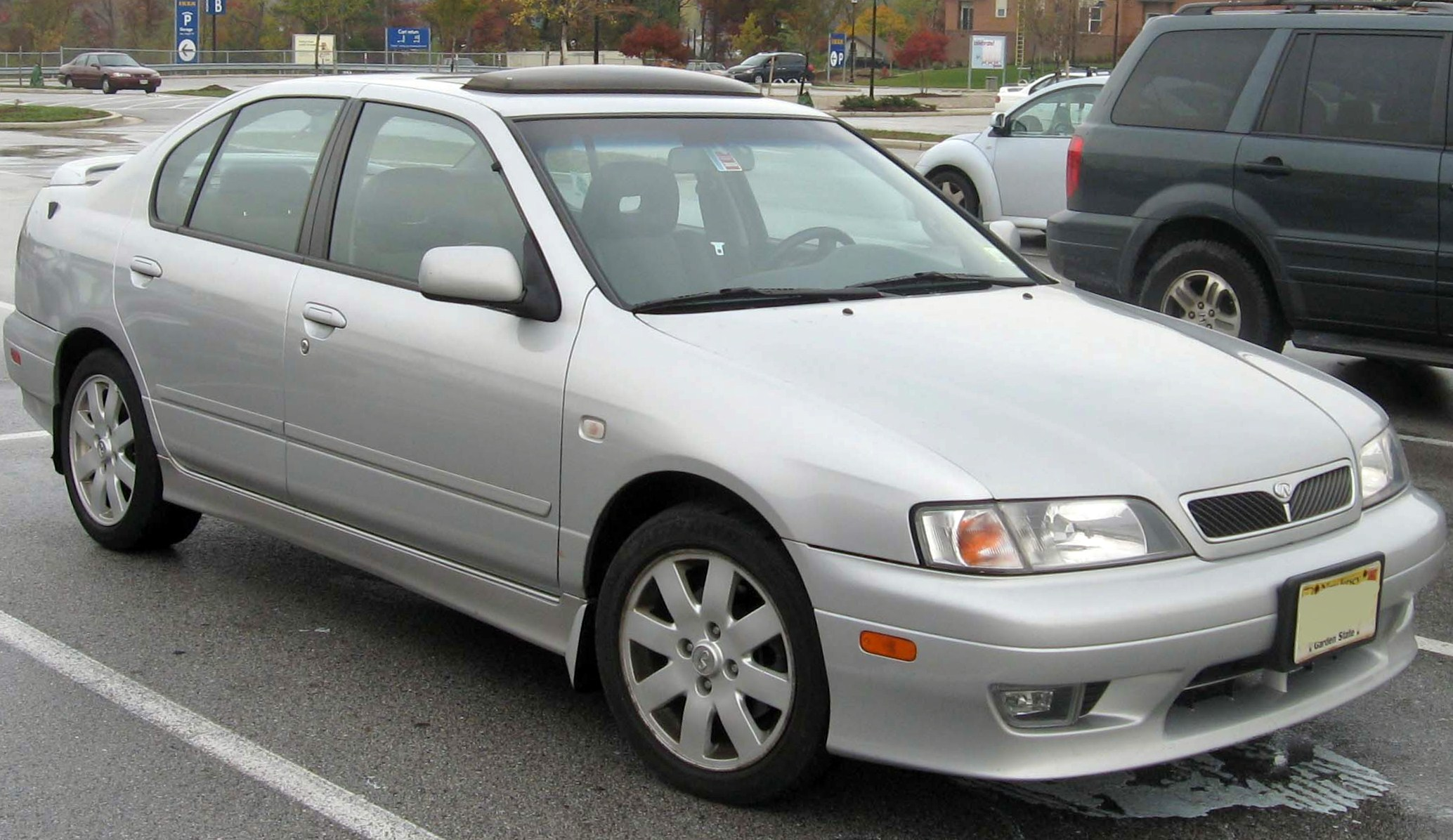 1999-2002 Infiniti G20 photographed in College Park, Maryland, USA.